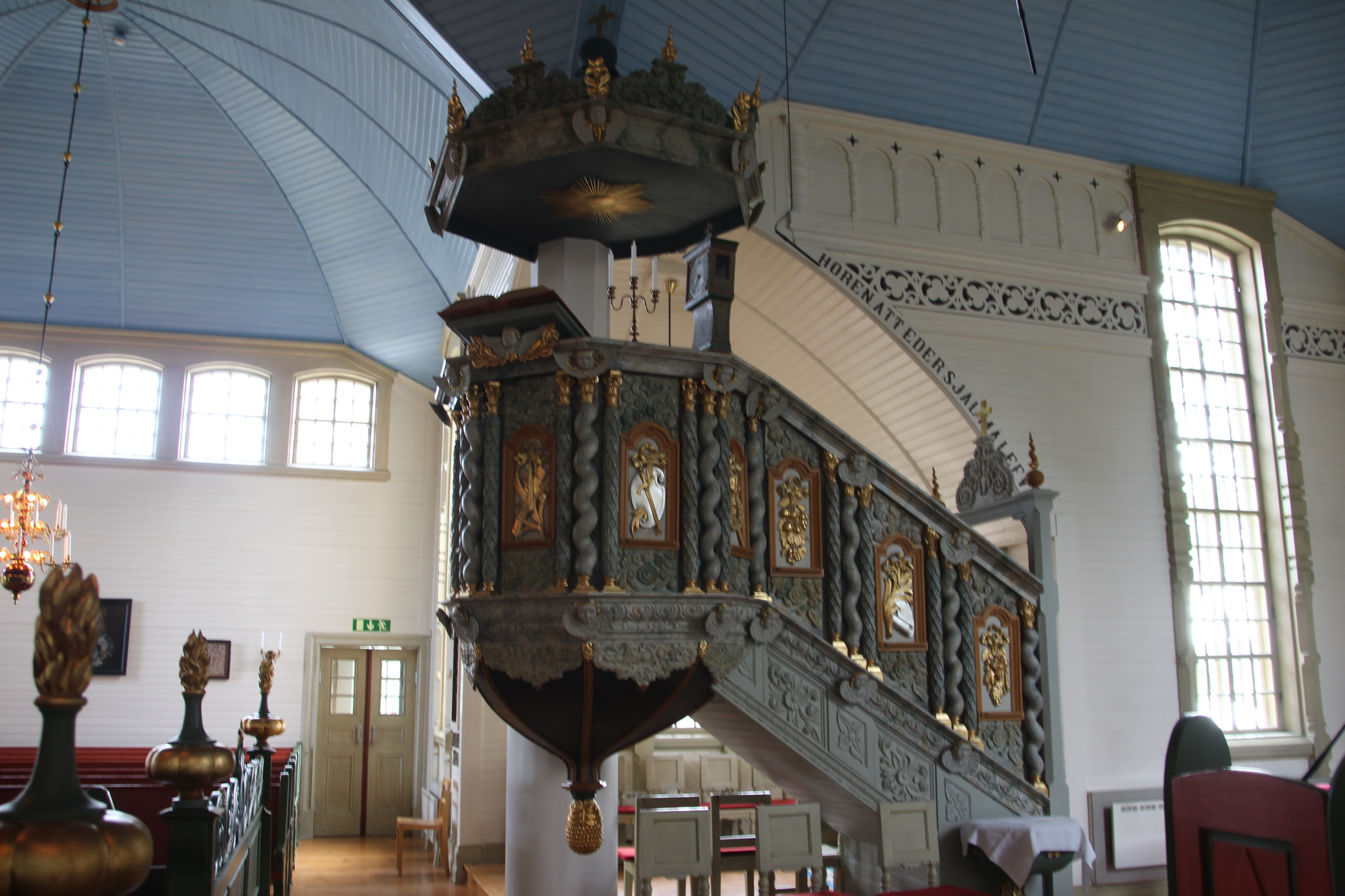 Pulpit in the Church of Arjeplog